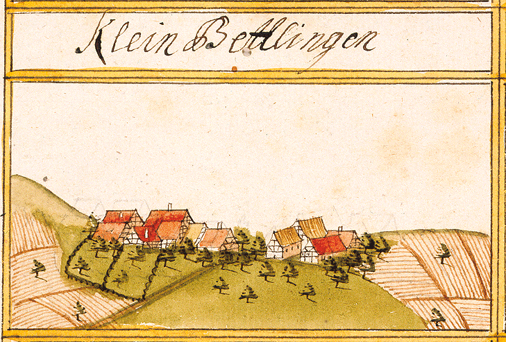 View of Kleinbettlingen, Bempflingen, from the forest register books created by Andreas Kieser